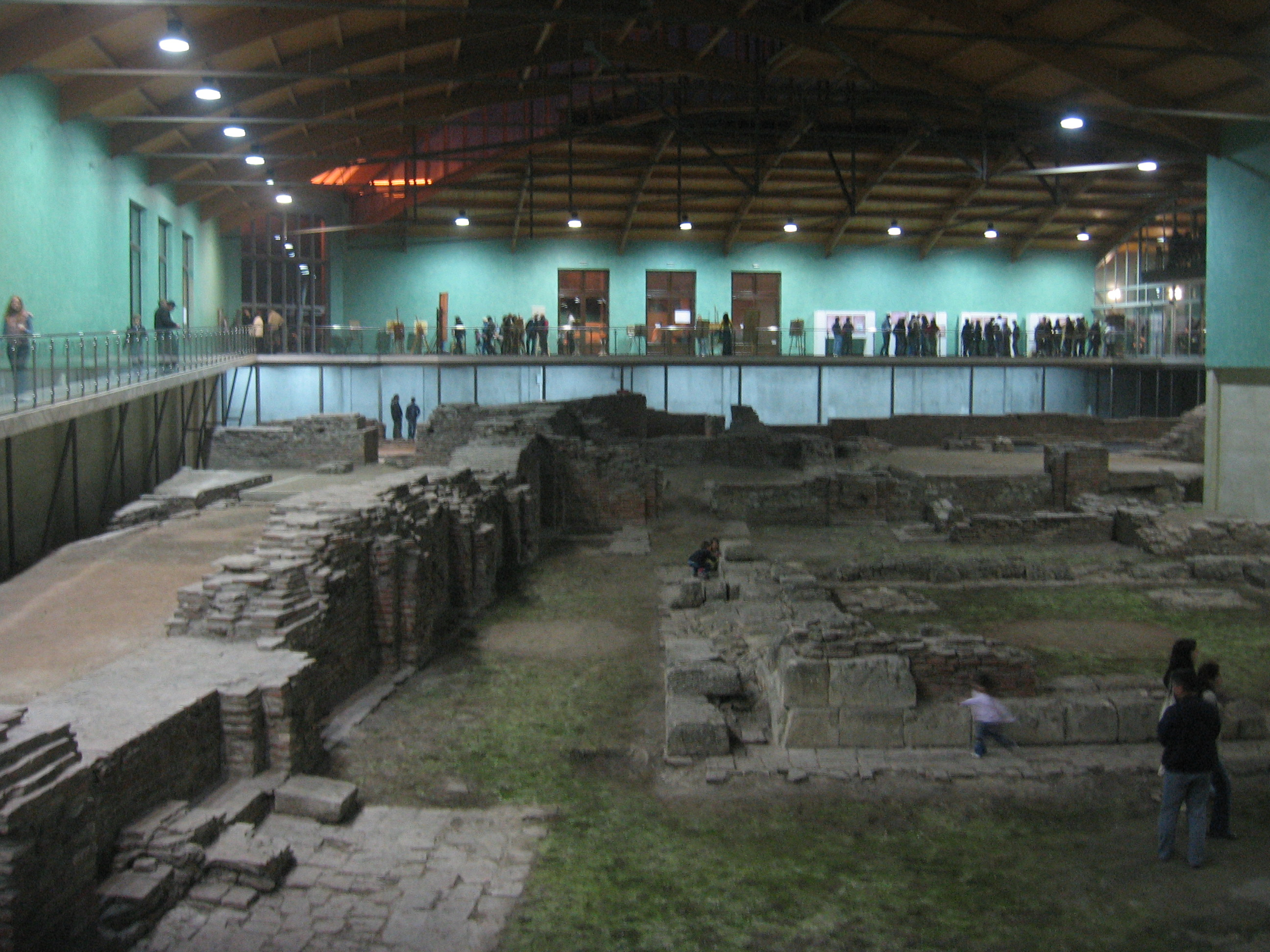 Imperial Palace in Sirmium, Sremska Mitrovica, Serbia